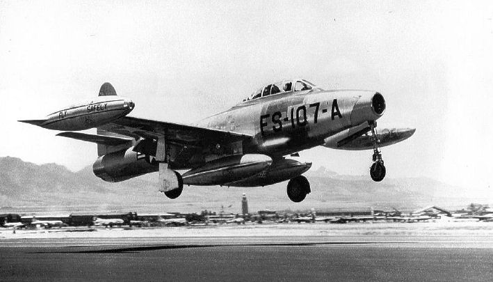 31st Fighter Escort Wing F-84G Thunderstreak Colonel David Schilling leads wing out of Hickam Field, Hawaii, on their way from Georgia to Japan. (USAF Photo, 31 FW History Office collection)